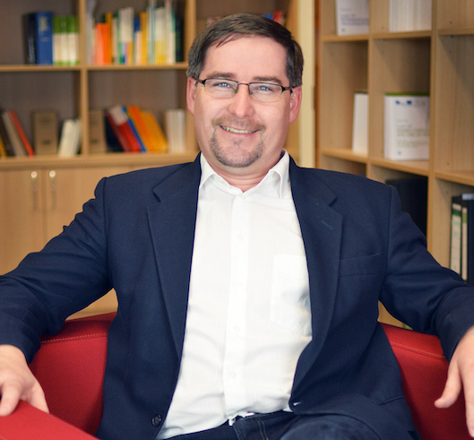 Václav Stehlík 2